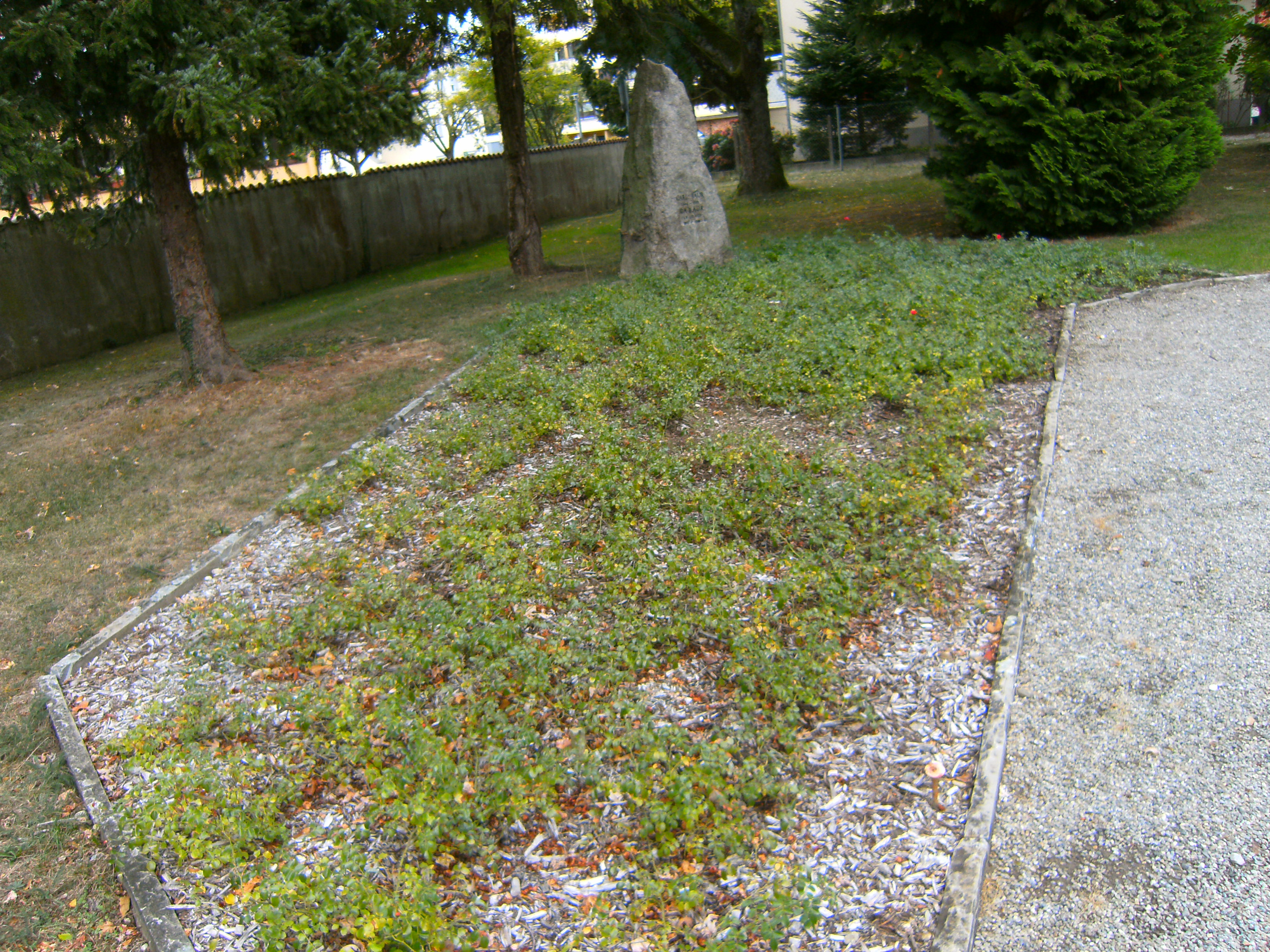 Friedhof Meersburg (cemetery Meersburg, Germany): Grave area in the vicinity to hall of last benediction for unknown people without address.